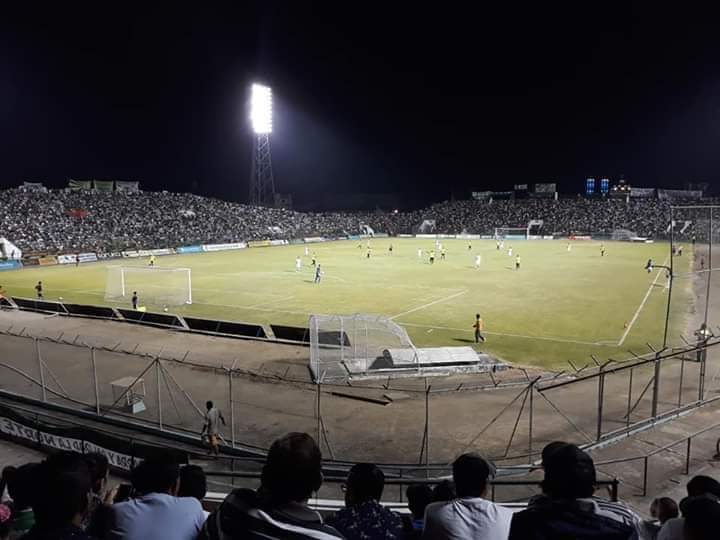 This is